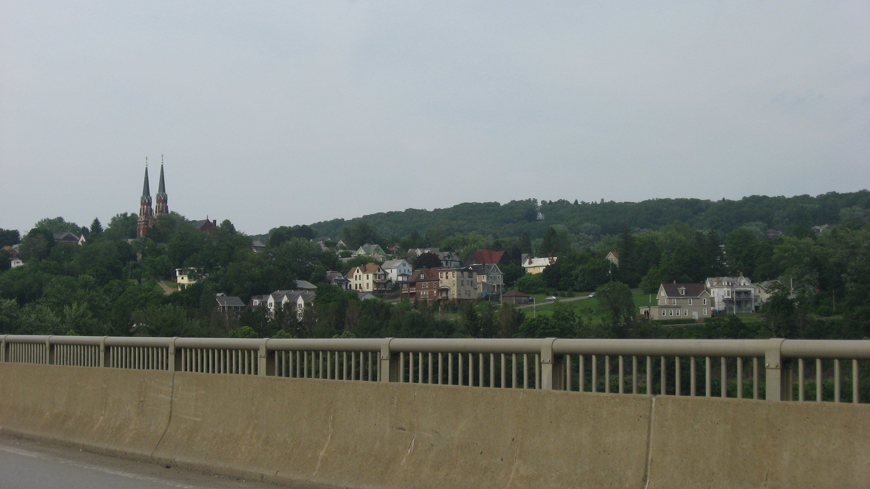 Looking northeast from the Veterans Memorial Bridge toward the eastern portion of Oil City, Pennsylvania, United States. The neighborhoods in the distance are part of the Oil City North Side Historic District, a historic district that is listed on the National Register of Historic Places.